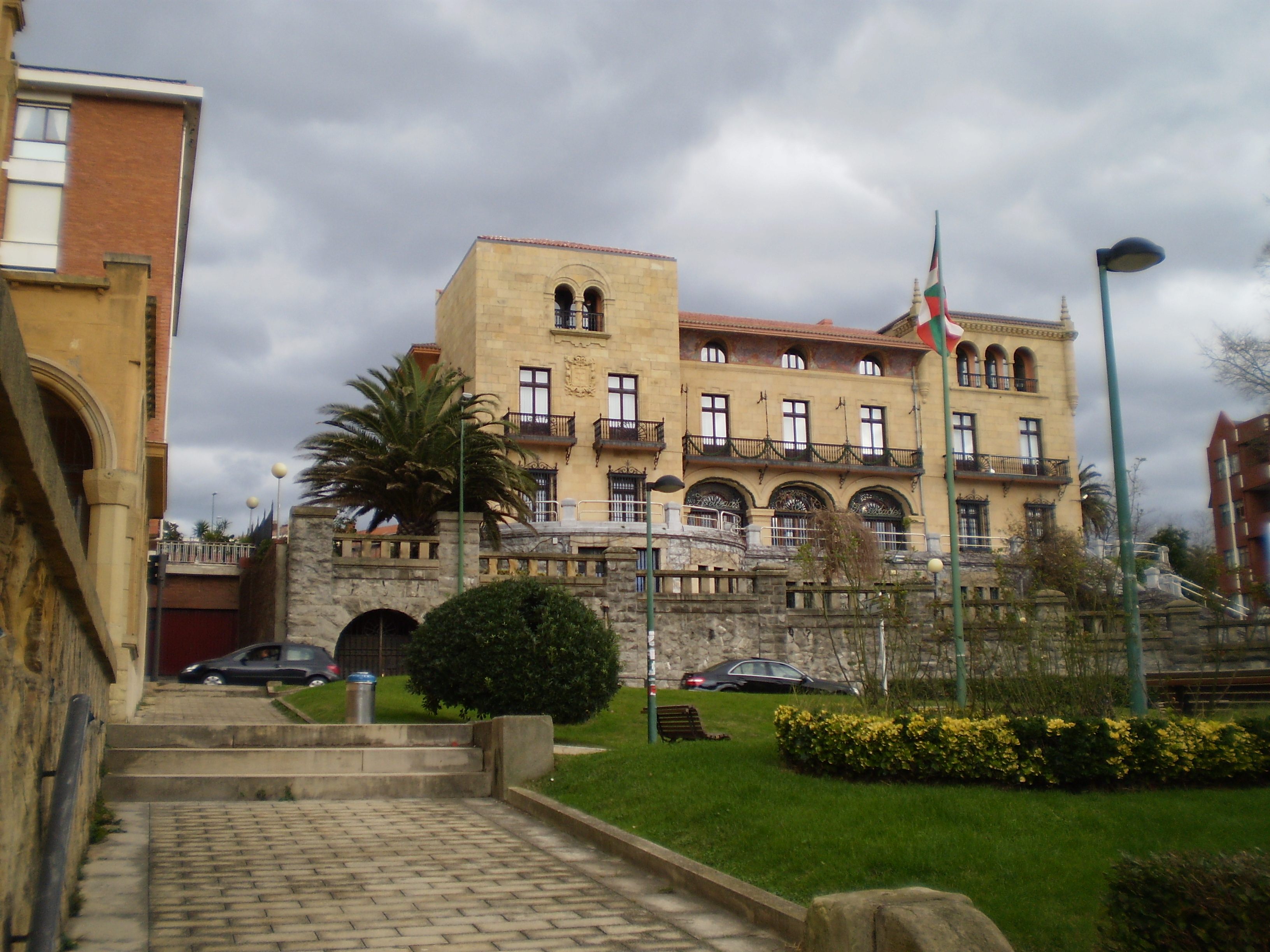 Getxo city council building